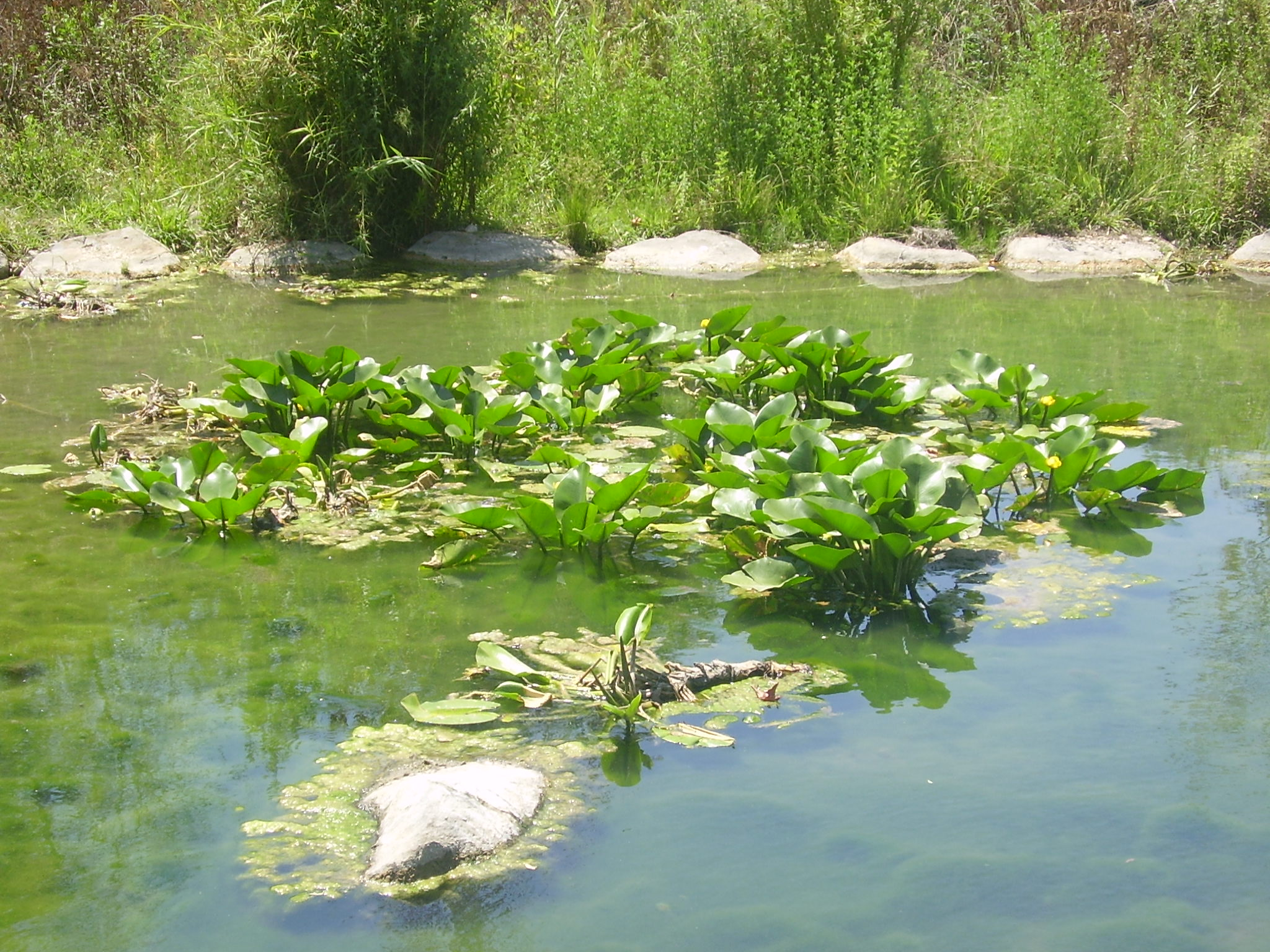 Nuphar lutea, Snir River, Upper Galilee, Israel